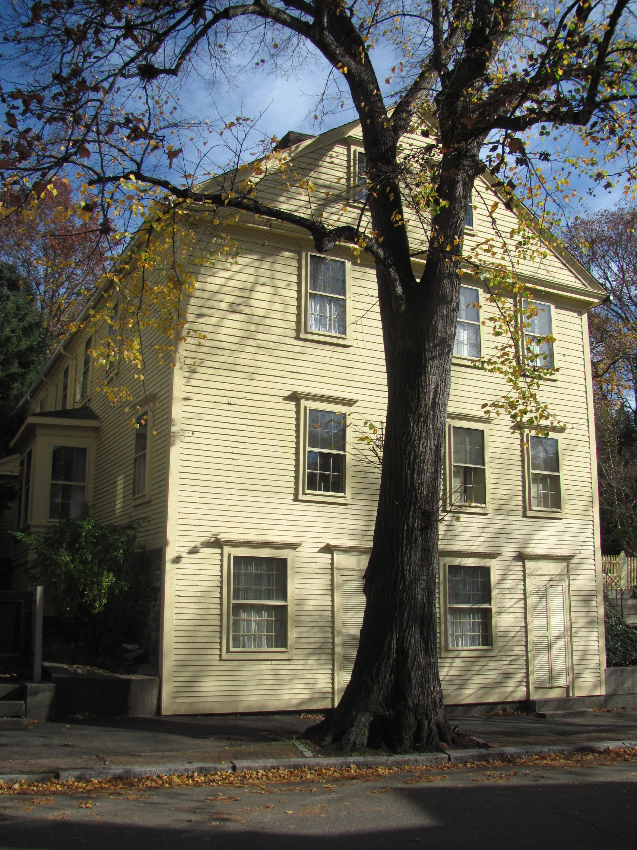 135 Benefit Street, Providence Rhode Island